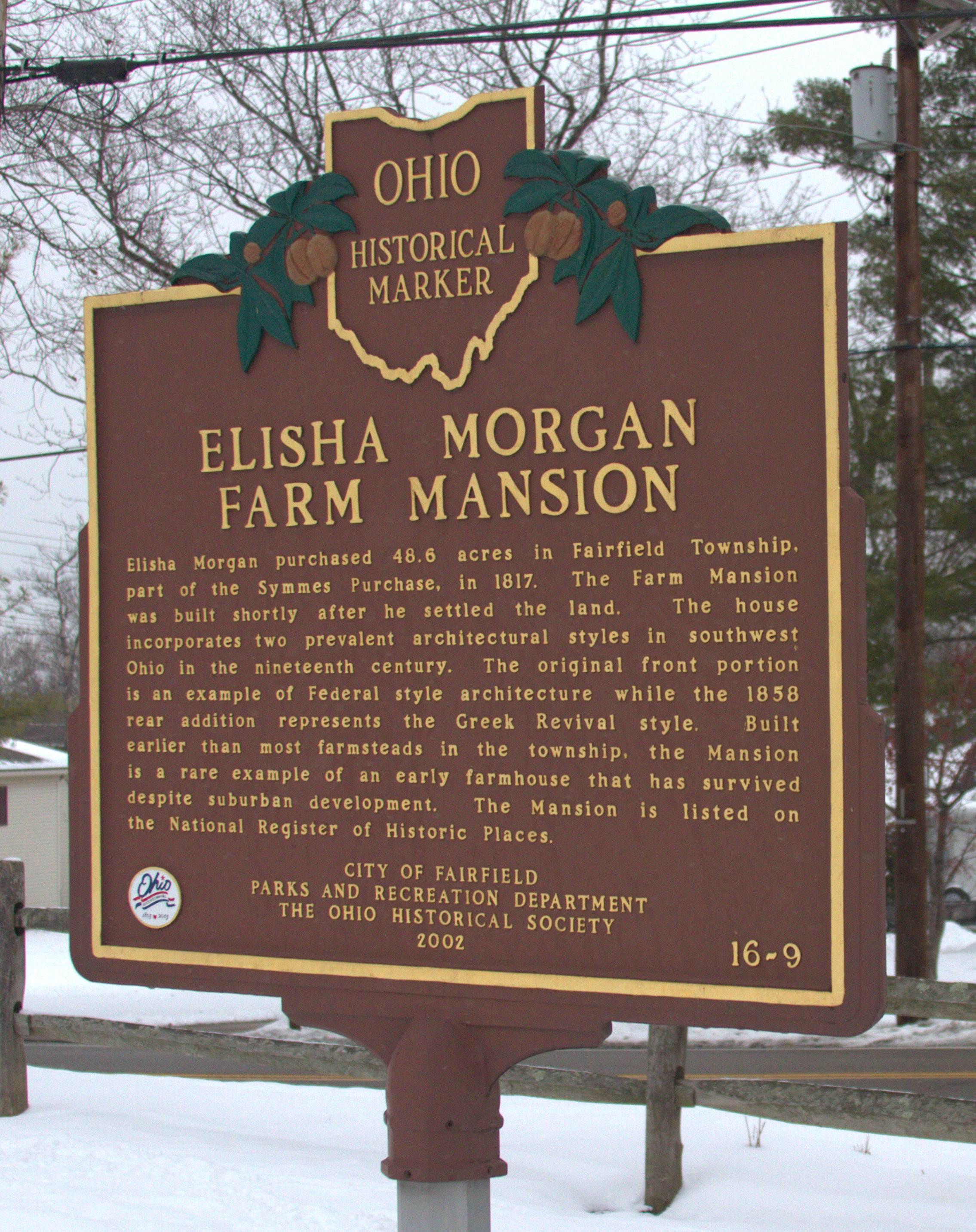 Elisha Morgan Farm Mansion in Fairfield, Oh. Photo by Greg Hume